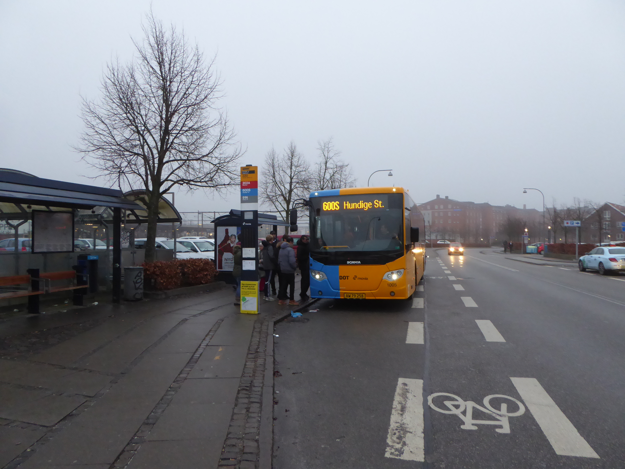 Movia bus line 600S on Ny Østergade at Roskilde Station in Denmark.